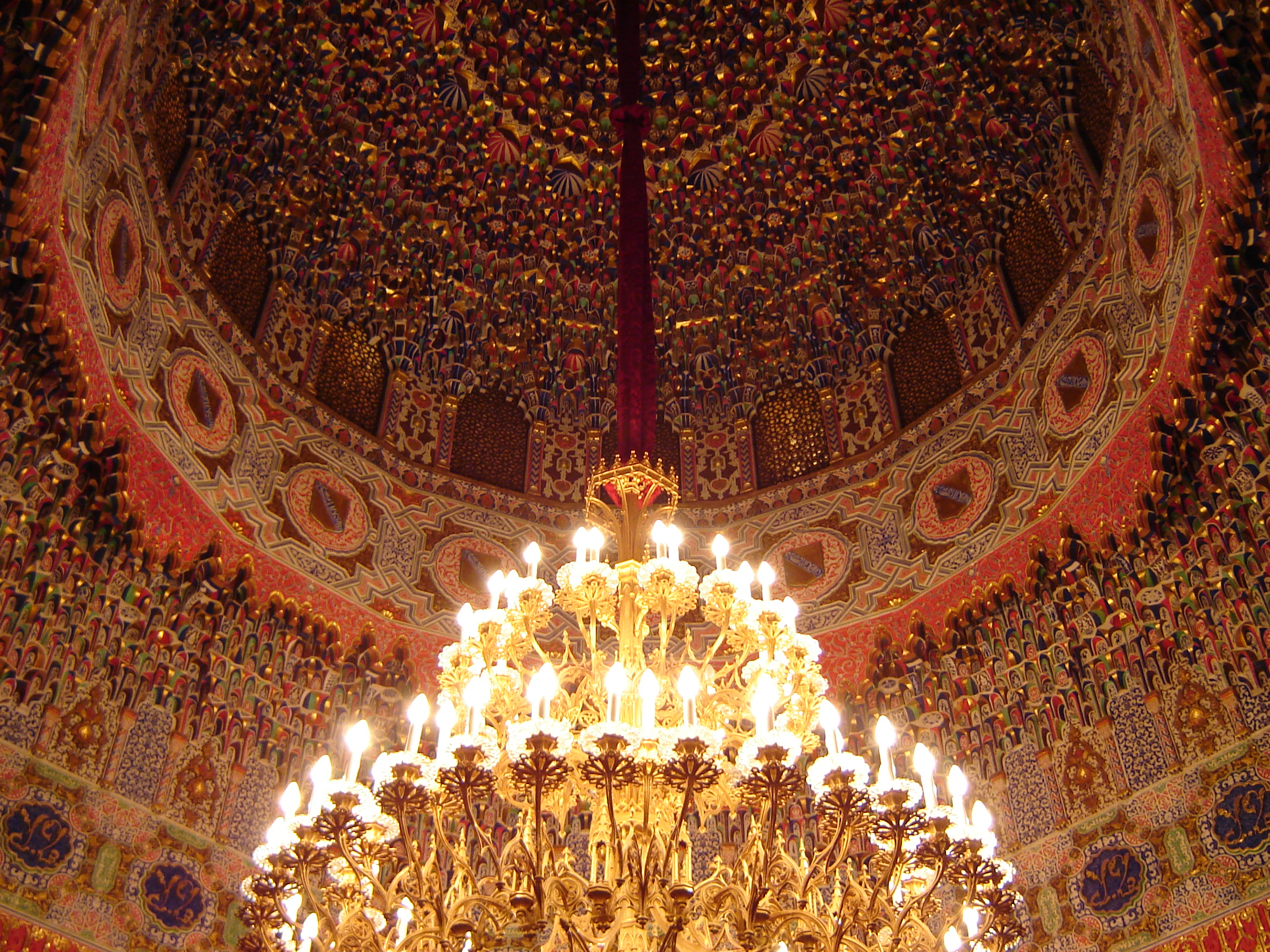 Detail of the interior of the Royal Palace of Aranjuez (Community of Madrid, Spain).